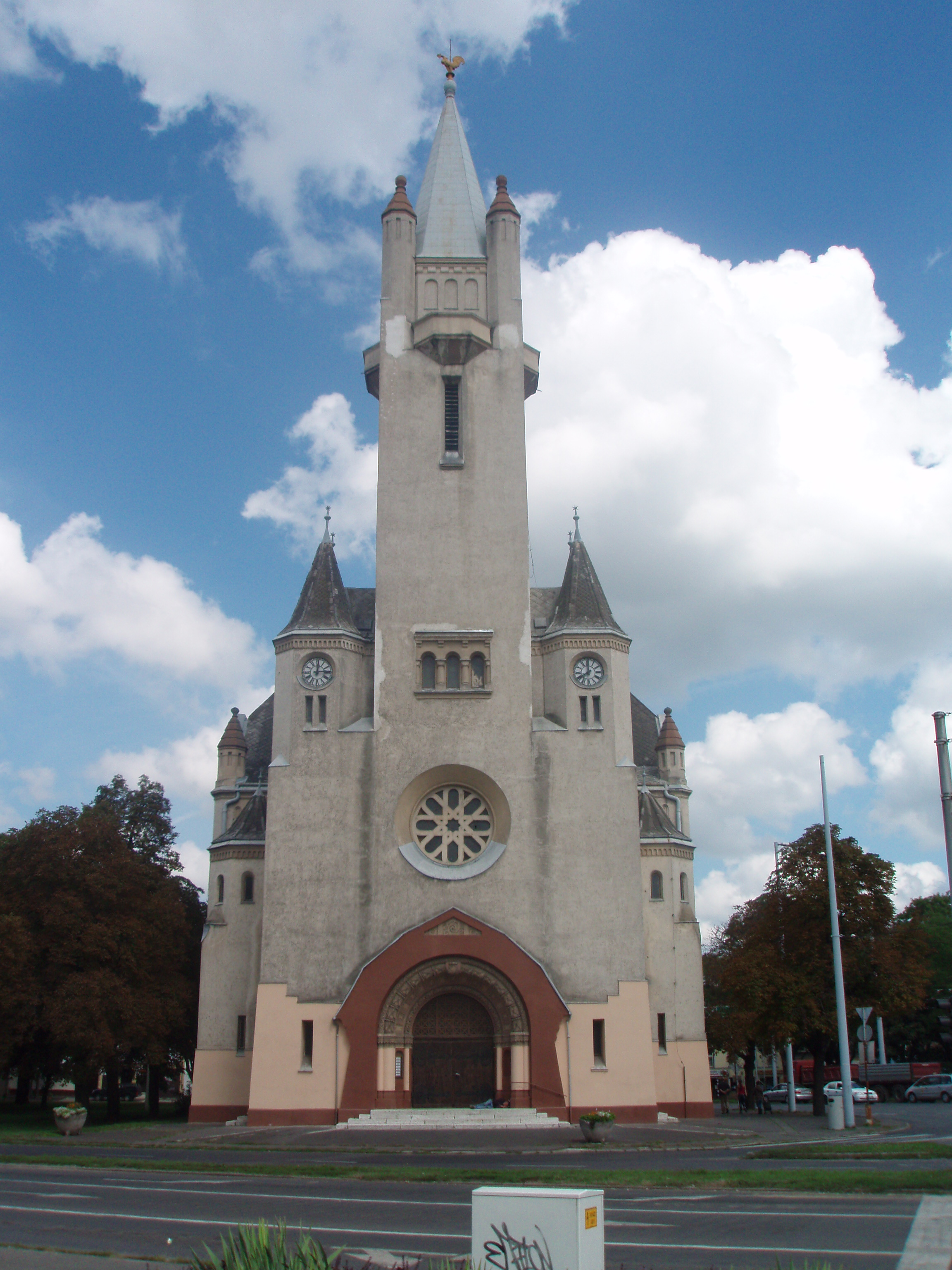 Reformatus templom